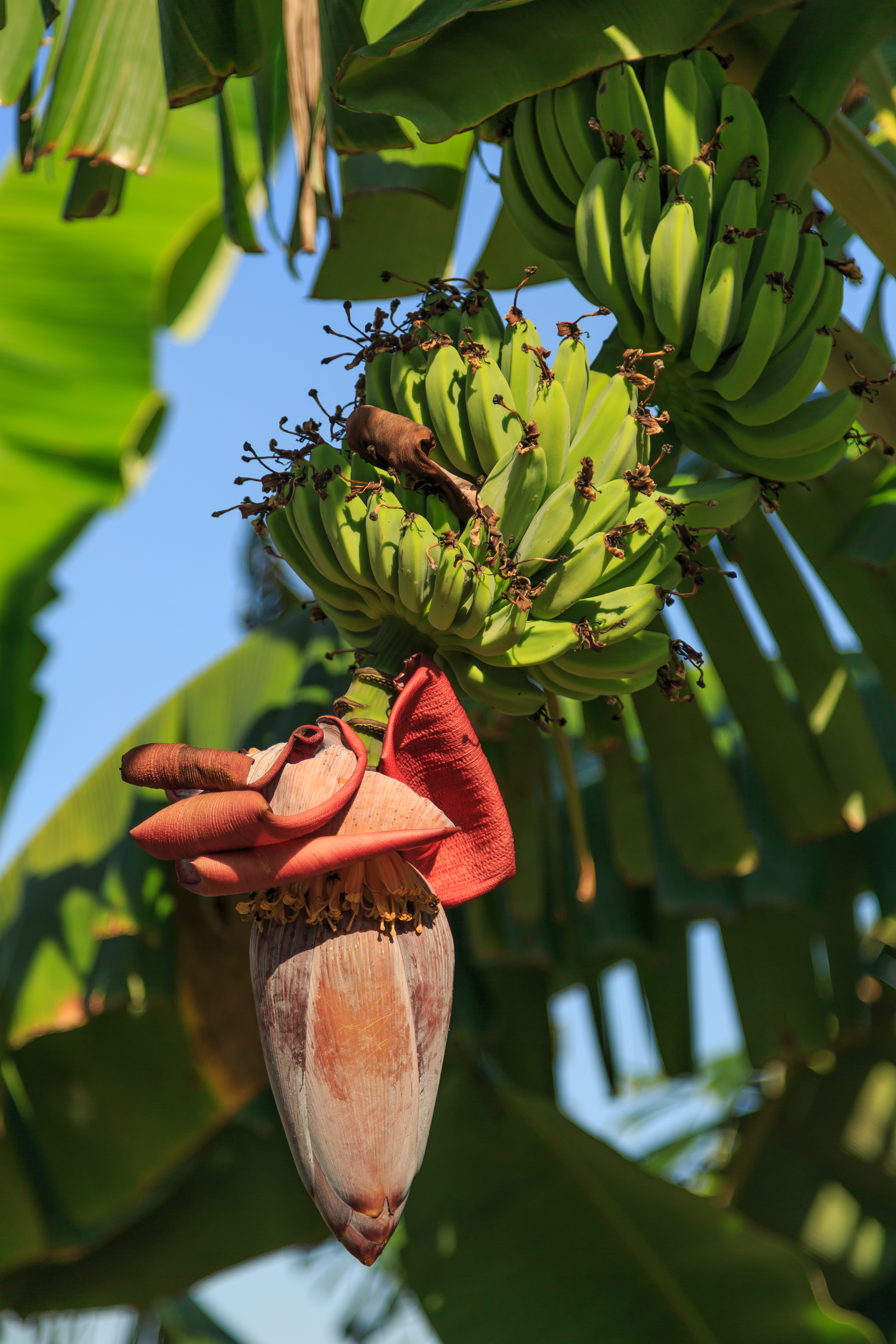 Bambangan, Sandakan, Sabah: A banana flower with bananas in Bambangan